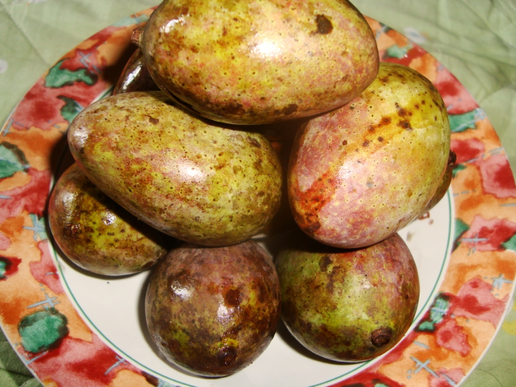 Mangifera casturi fruits, Borneo, Indonesia